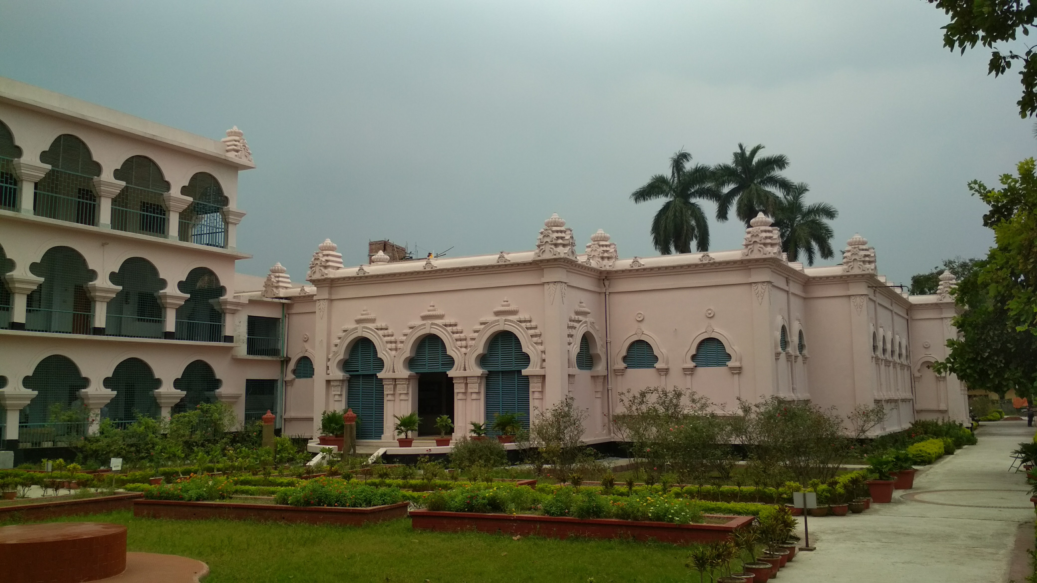 Front side of Varendra Research Museum, Rajshahi